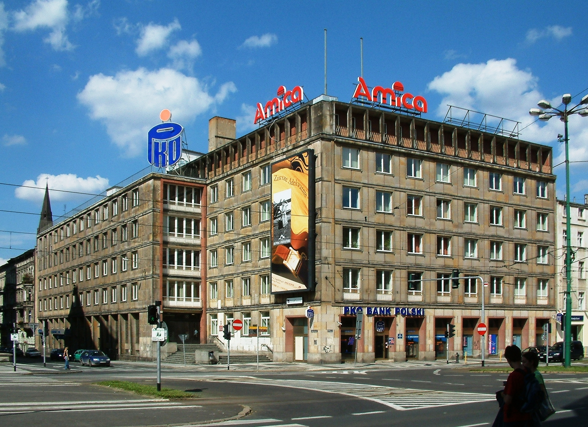 Collegium Historicum of Adam Mickiewicz University in Poznań (former seat of Poznań Voivodship Committee of Polish United Workers' Party)